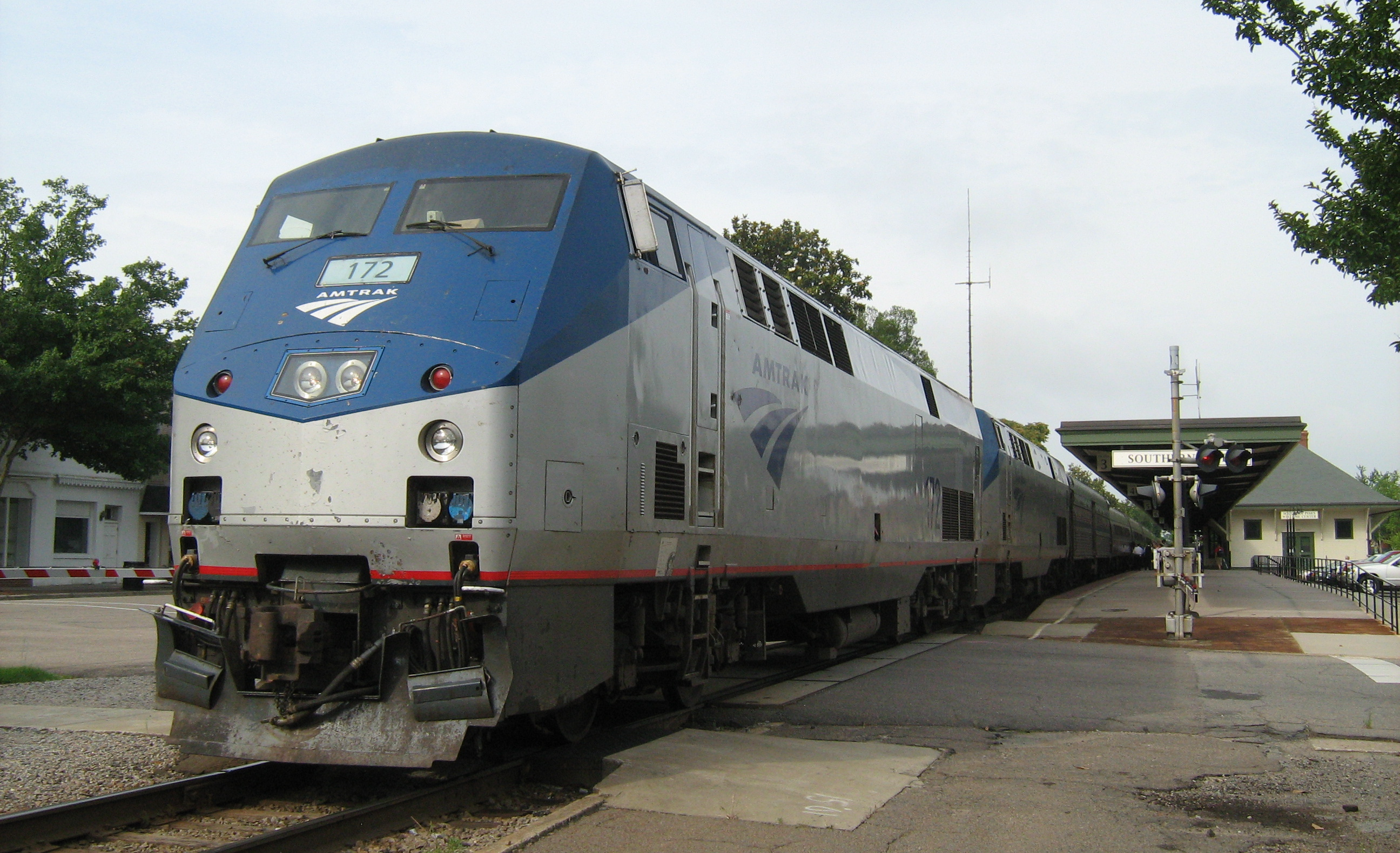 Amtrak Silver Star (northbound train number 92) in the Southern Pines station (SOP)